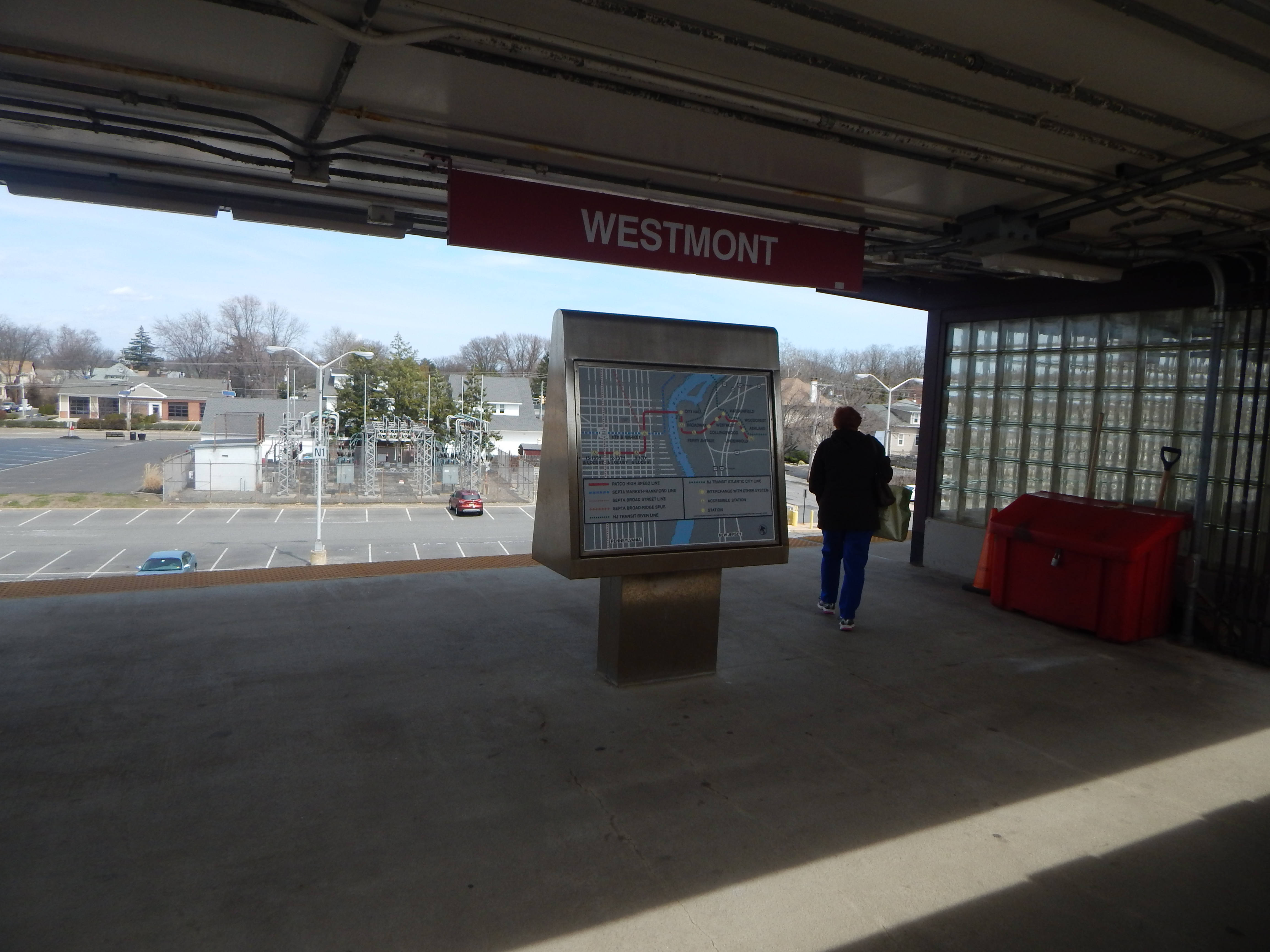 Platform at Westmont PATCO station in April 2015